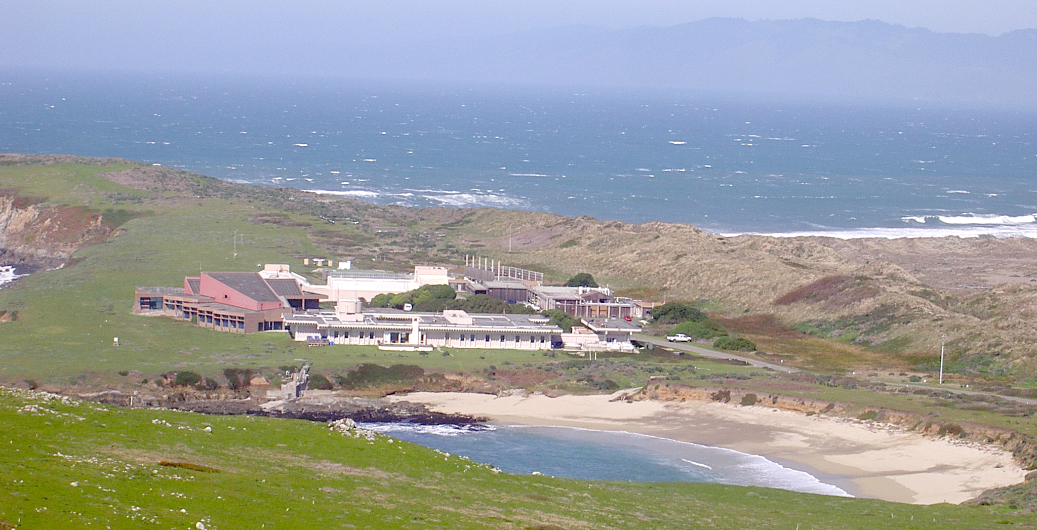 Photo of Horseshoe Cove and the Bodega Marine Laboratory on Bodega Head, Sonoma County, California, USA. Looking NNW from